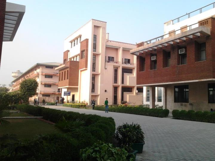 IMS ENGG COLLEGE BLOCK